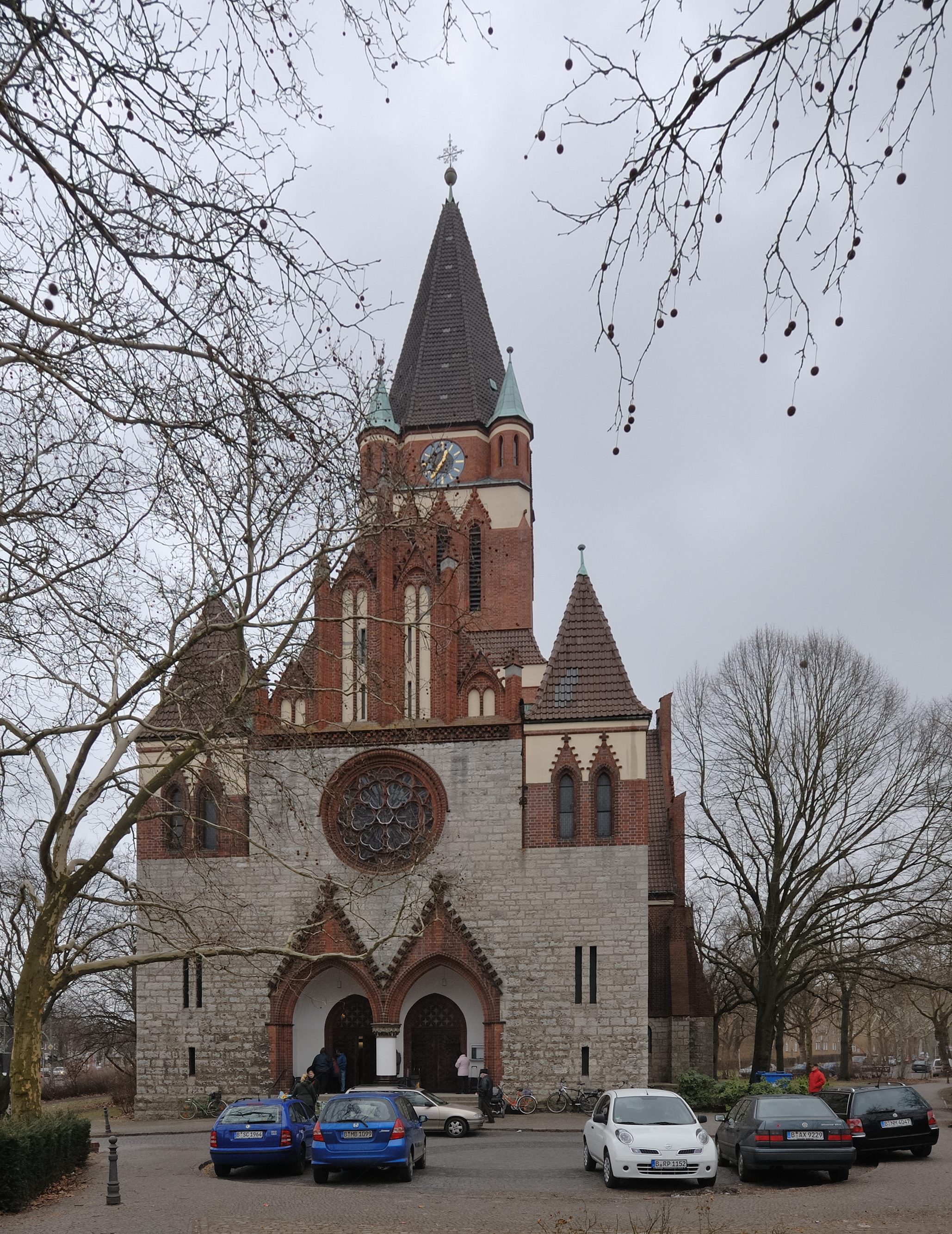 Holy Trinity Church, Berlin-Lankwitz, view from northwest.